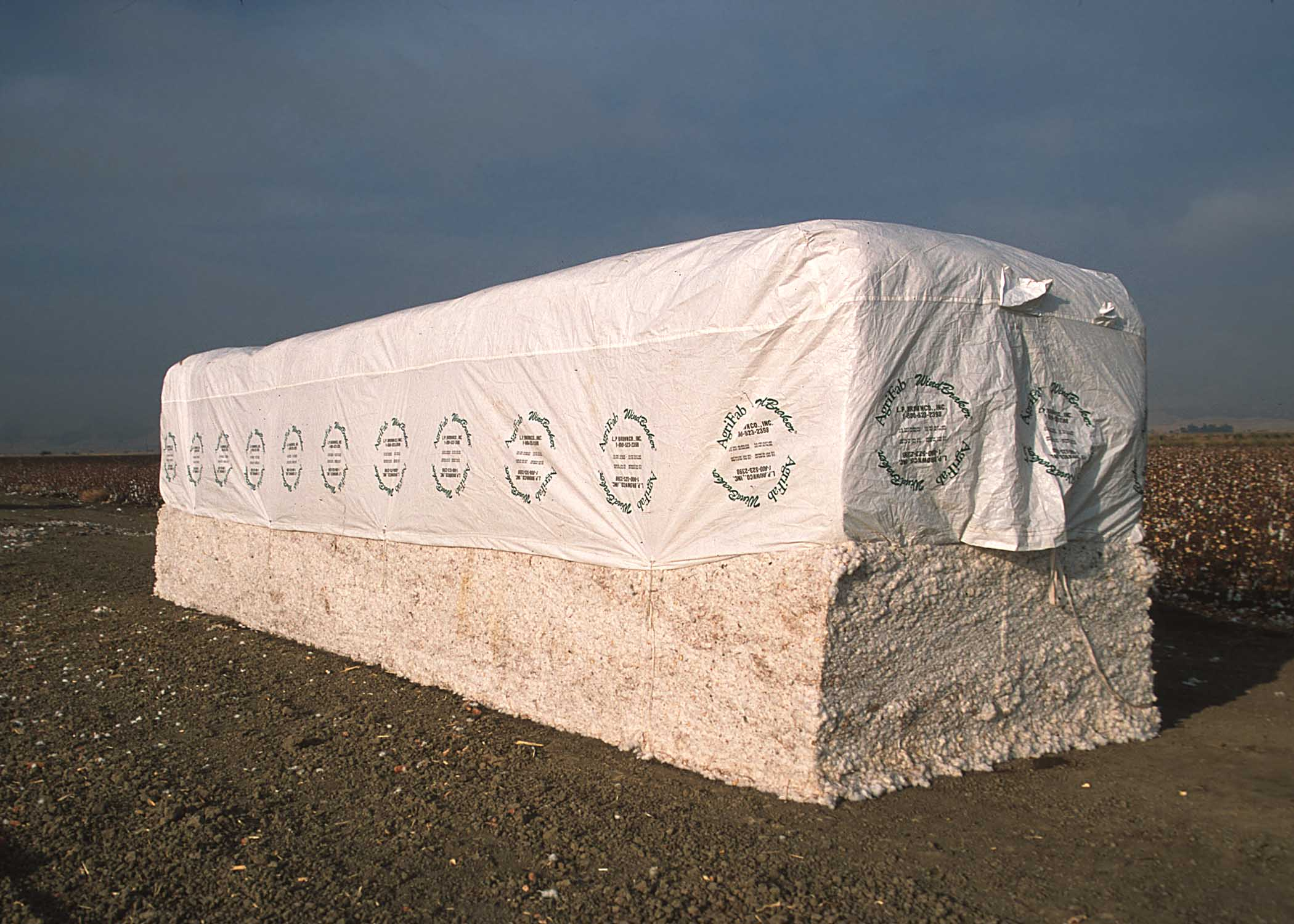 Cotton module, California, 2002